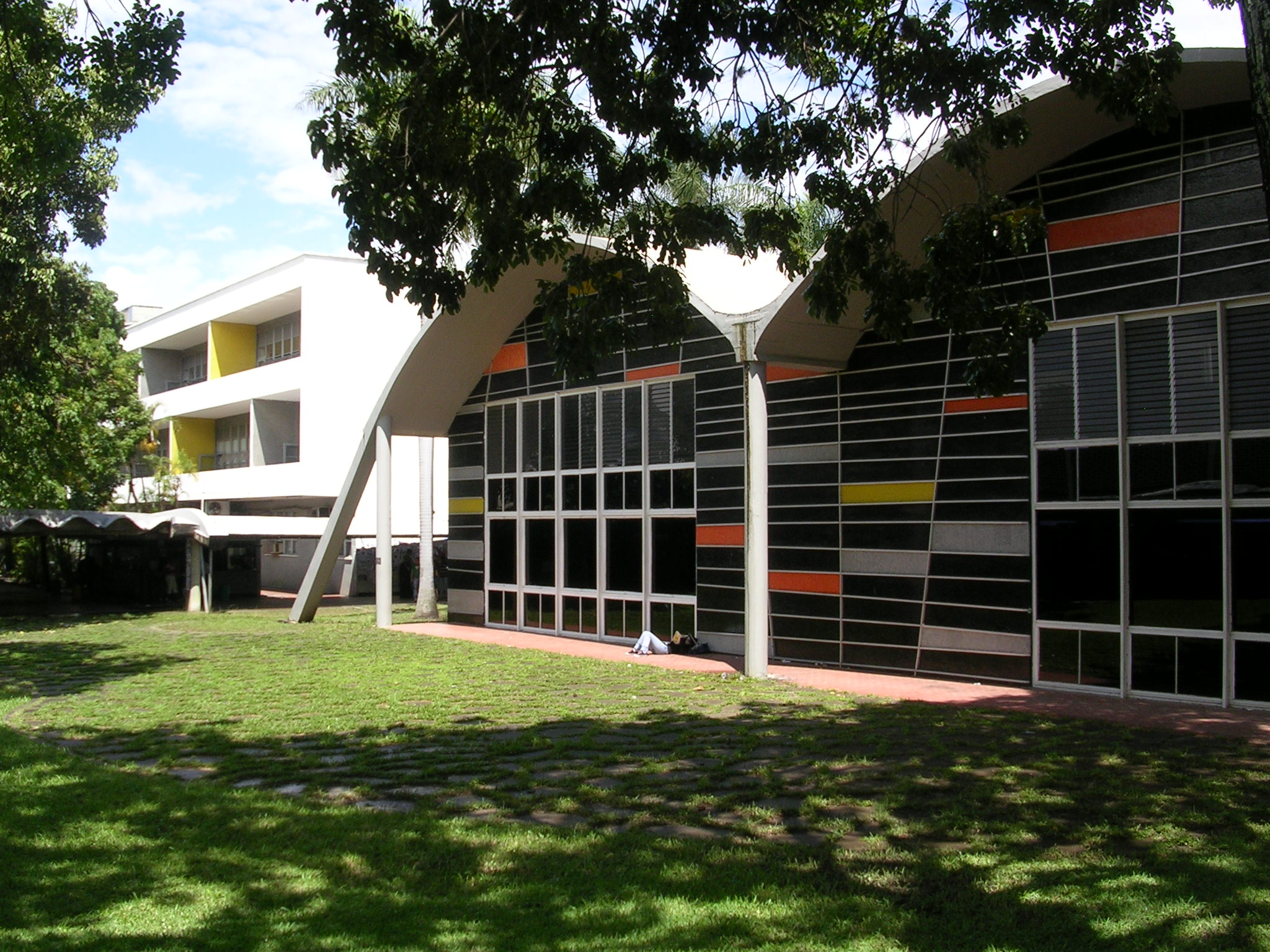 Engineering school. Mural by Alejandro Otero. Central University of Venezuela. Modern movement art + architecture in Venezuela.